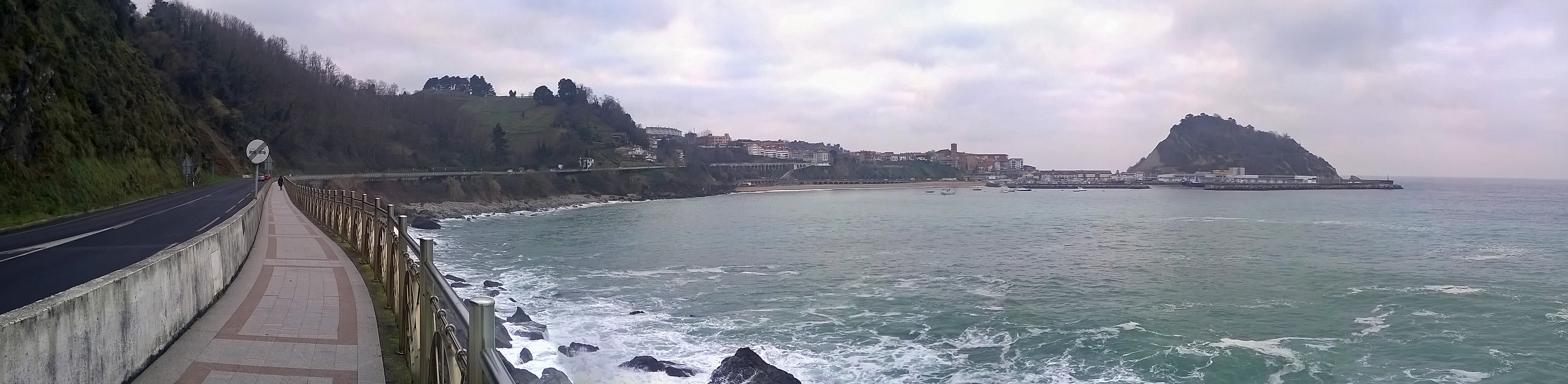 Getaria, Gipuzkoa, Basque Country